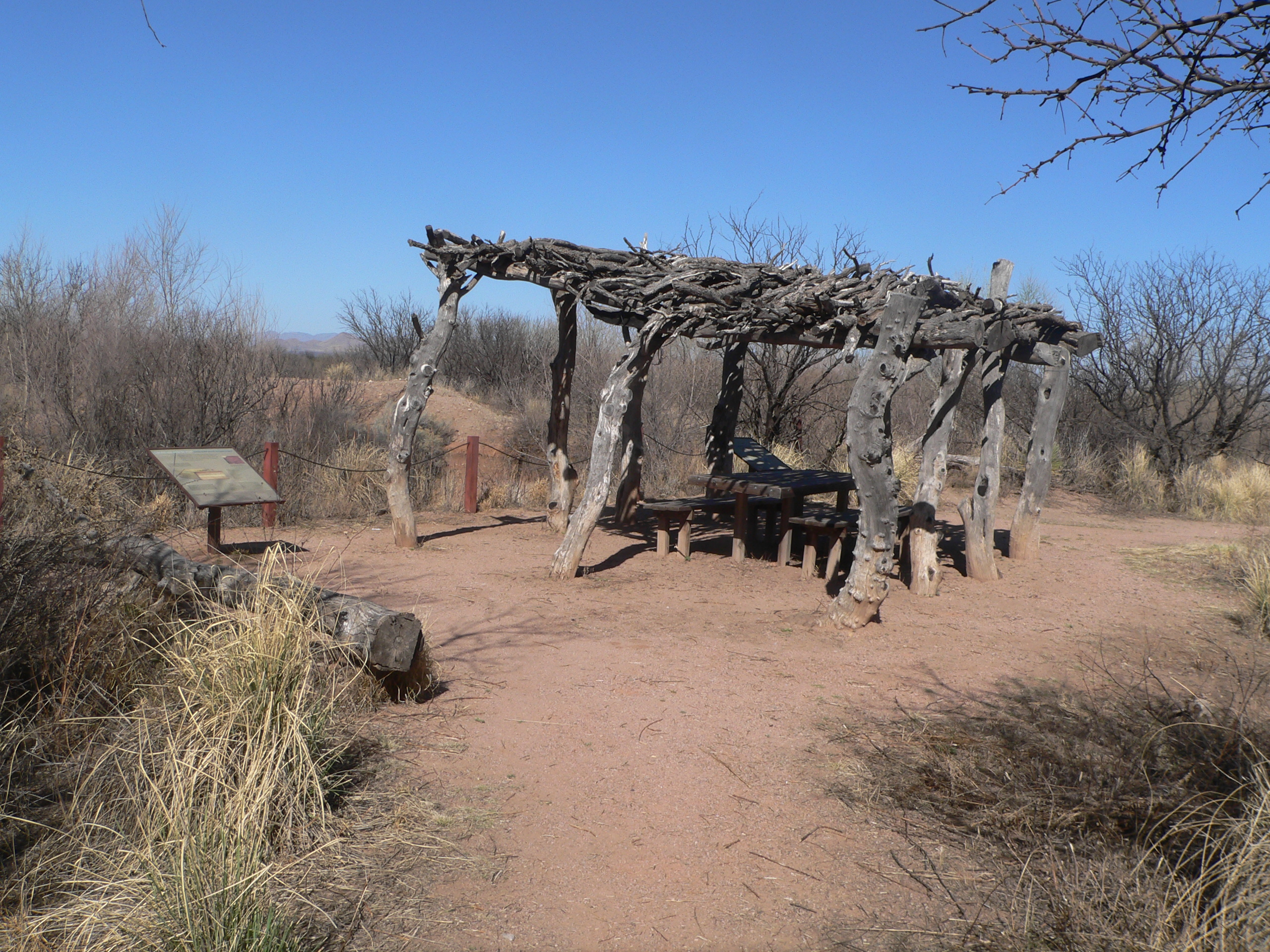 Murray Springs Clovis site, located east of Moson Road north of Arizona Highway 90, west of Sierra Vista, Arizona. Ramada and interpretive signs beside (south of) incised wash.